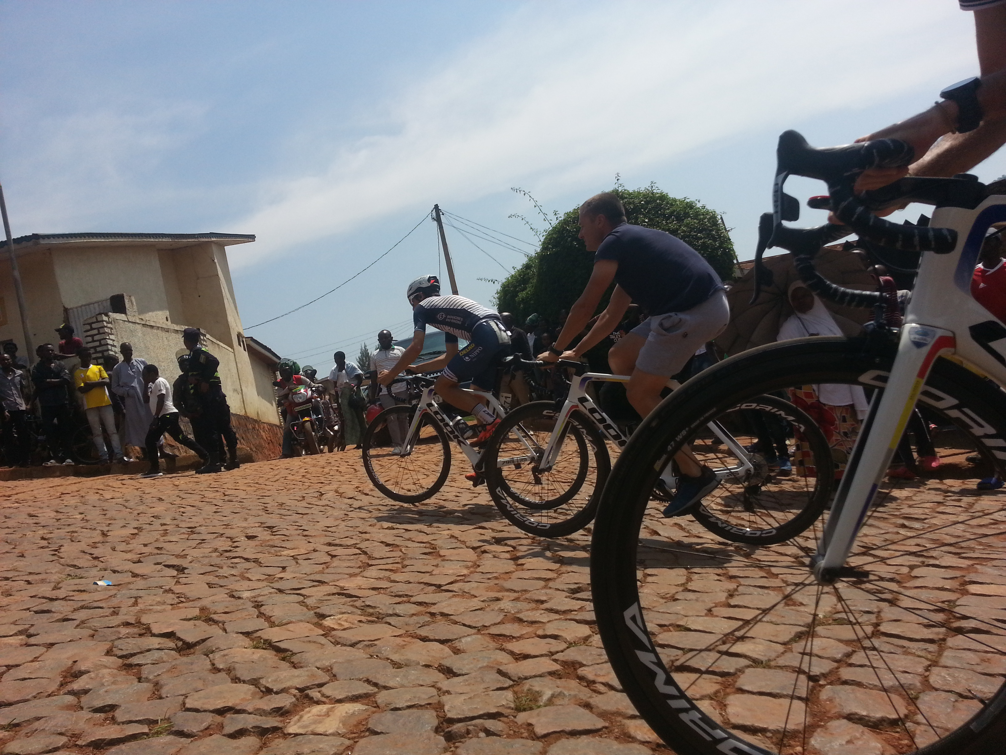 Kinyarwanda: Ibuye This is an image with the theme "Africa on the Move or Transport" from: Rwanda